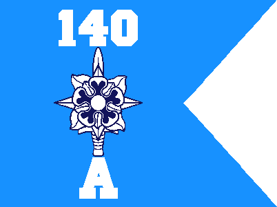 guidon of Company A, 140th Military Intelligence Battalion (United States)